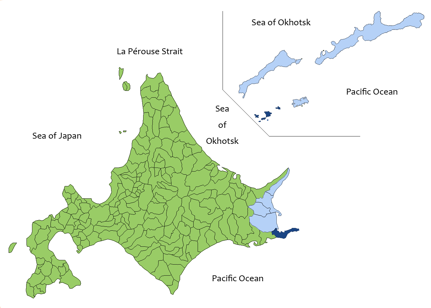 Location of Nemuro city, Hokkaido, Japan in English